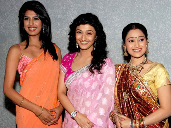 Ragini Khanna, Disha Wakani,Aishwarya Sakhuja on the sets of KBC